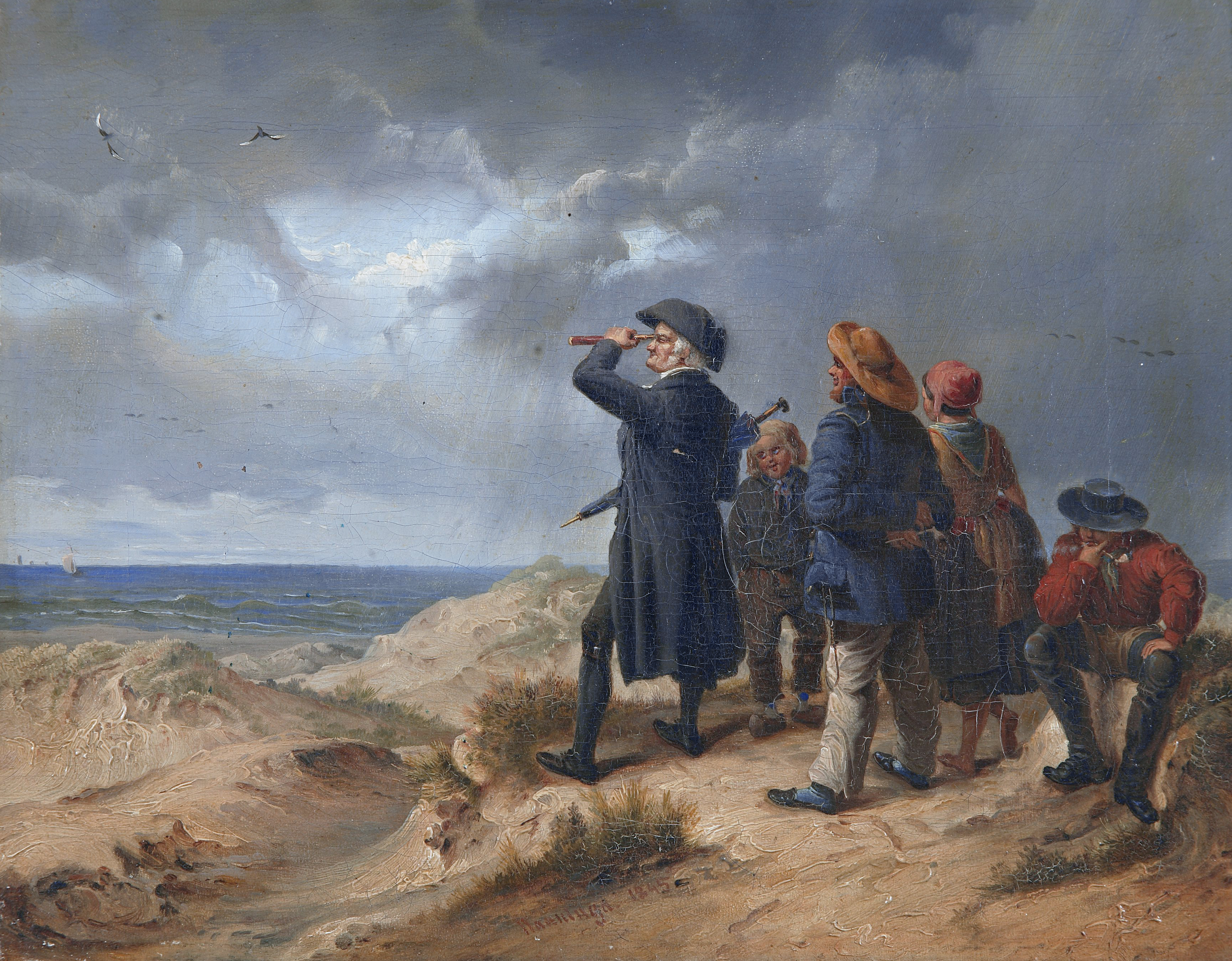 A look at the sea oil on canvas 1845